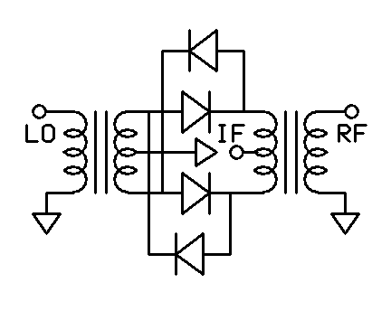 Double balanced mixer used in radio receivers and transmitters.